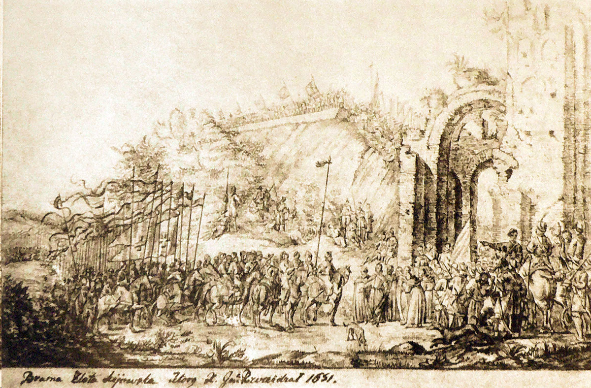 Golden Gate in Kiev in 1651 by Abraham Evertsz. van Westerveld